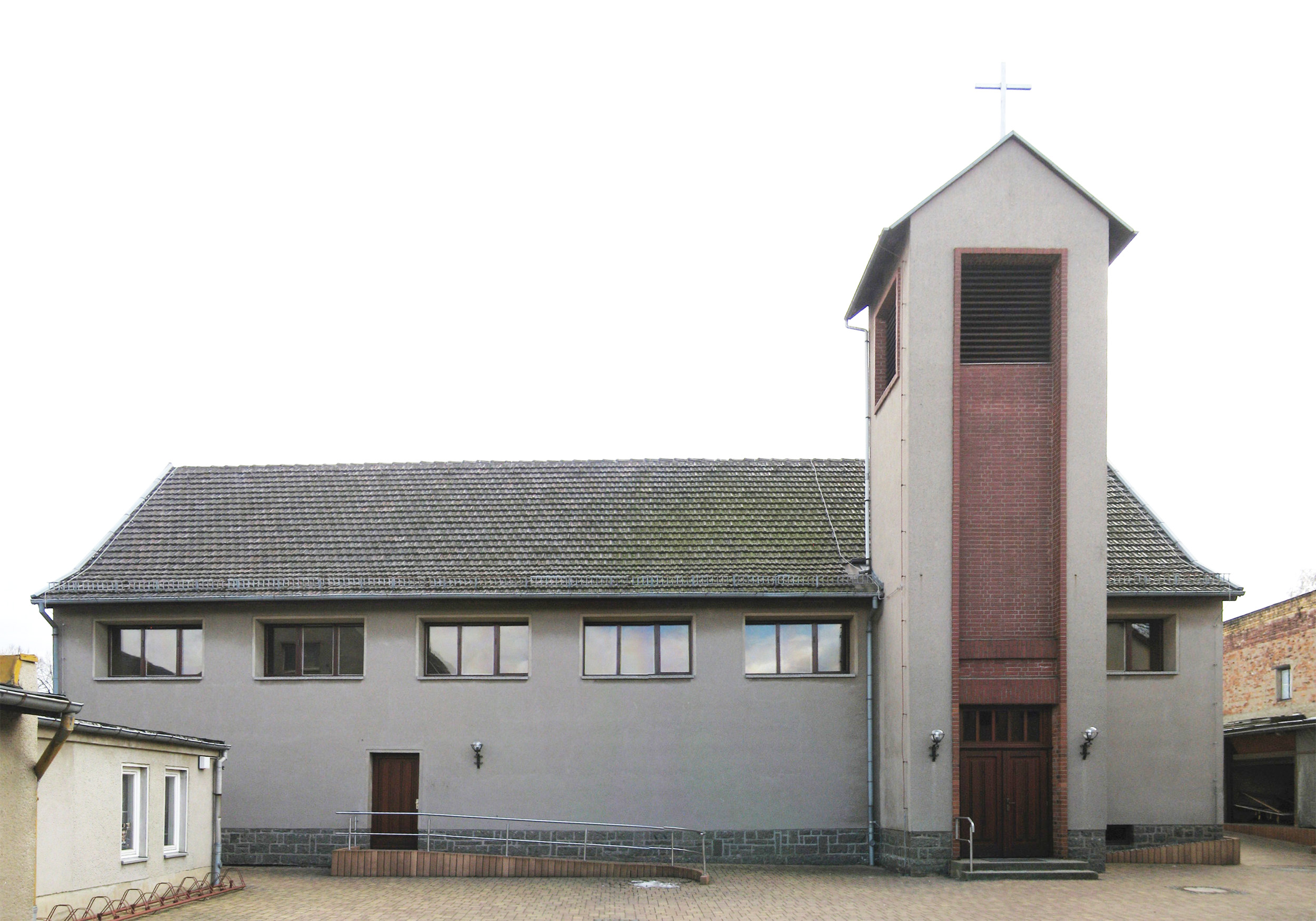 Roman Catholic Church of St. Gertrude in Leipzig-Engelsdorf, Engeldorfer Strasse 298